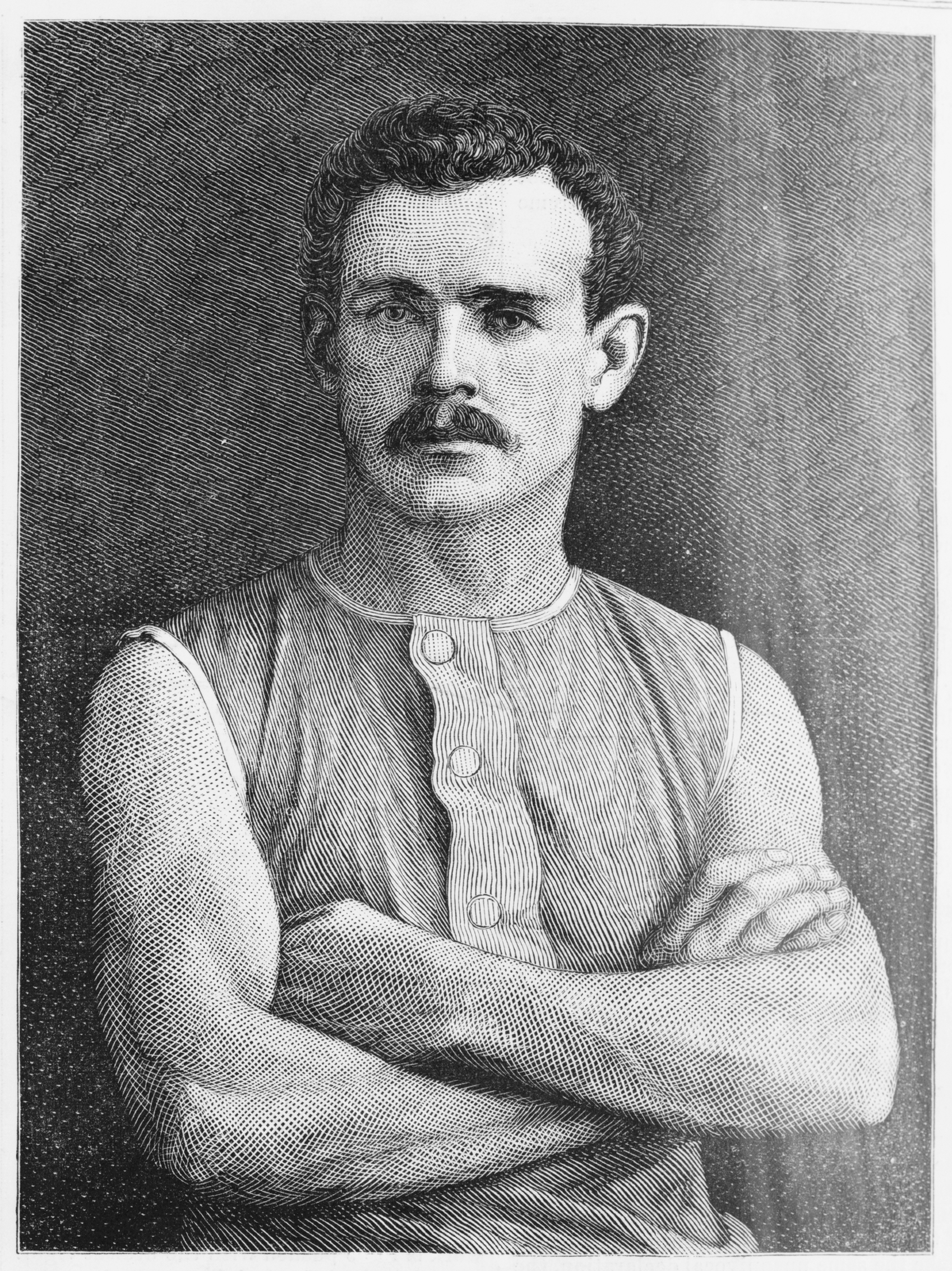 Canadian rower Ned Hanlan